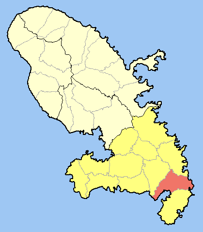 Location of Le Marin within Martinique